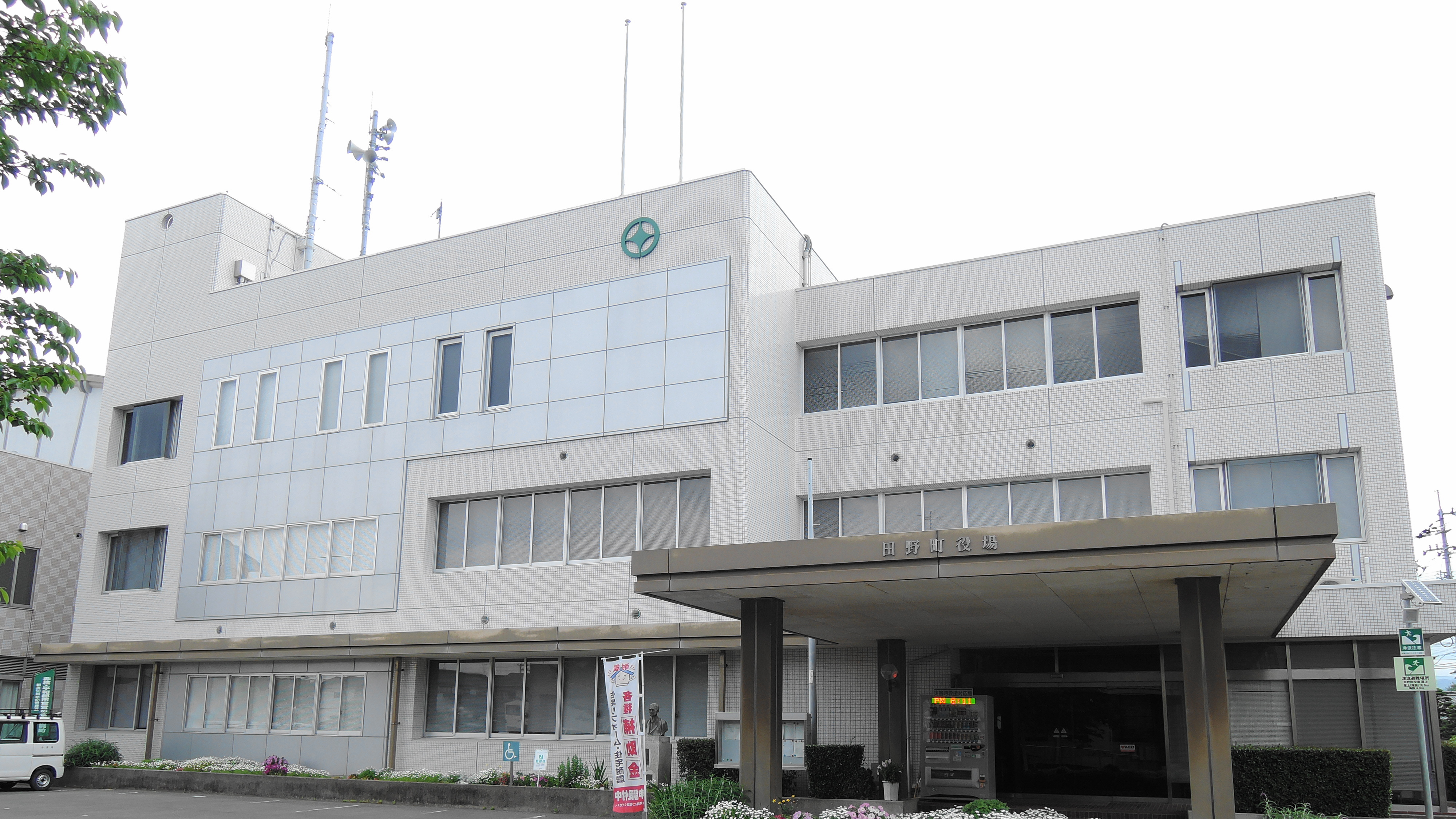 Tano town hall,Kochi prefecture,Japan